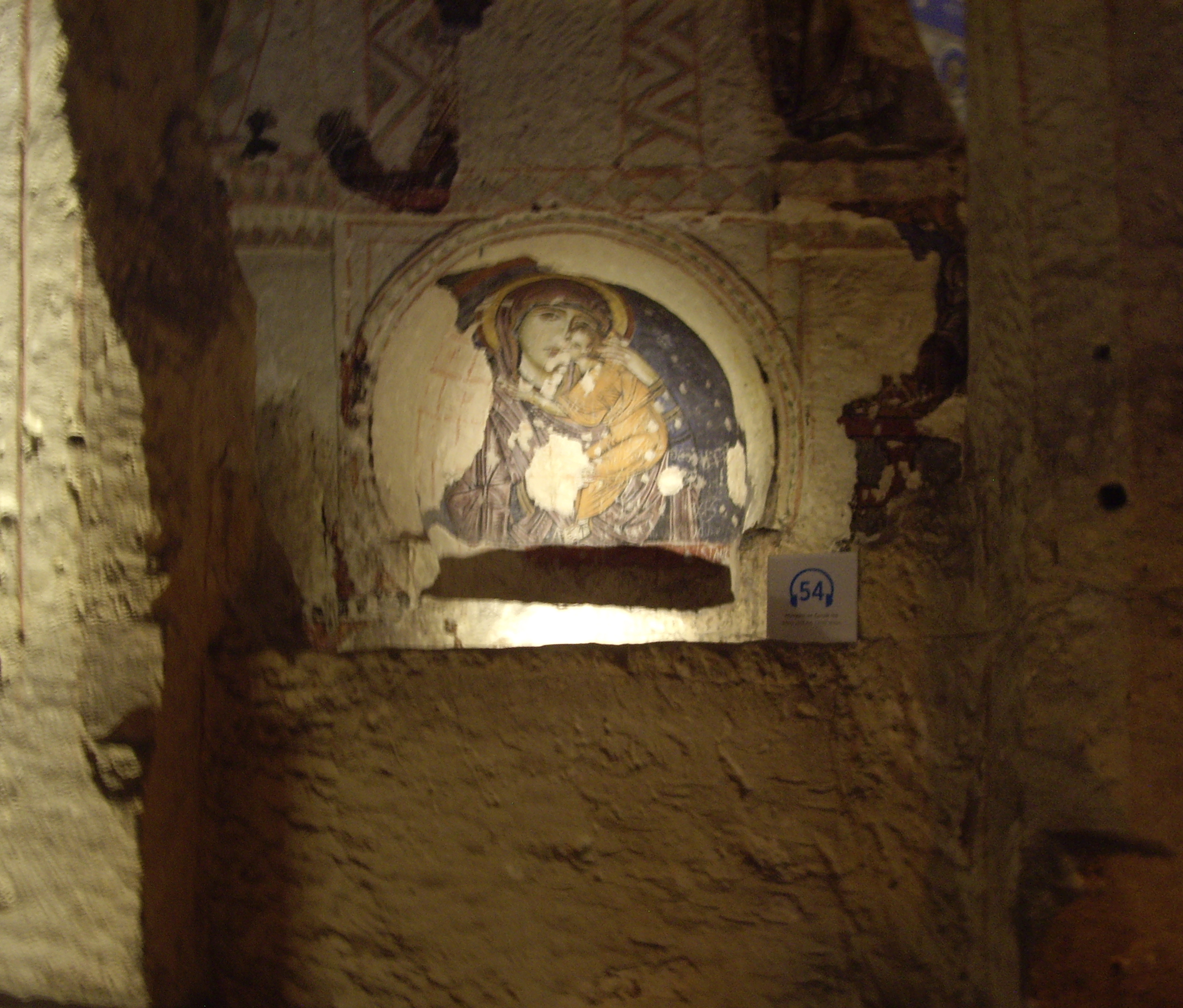 Cappadocia Virgin Marry fresco